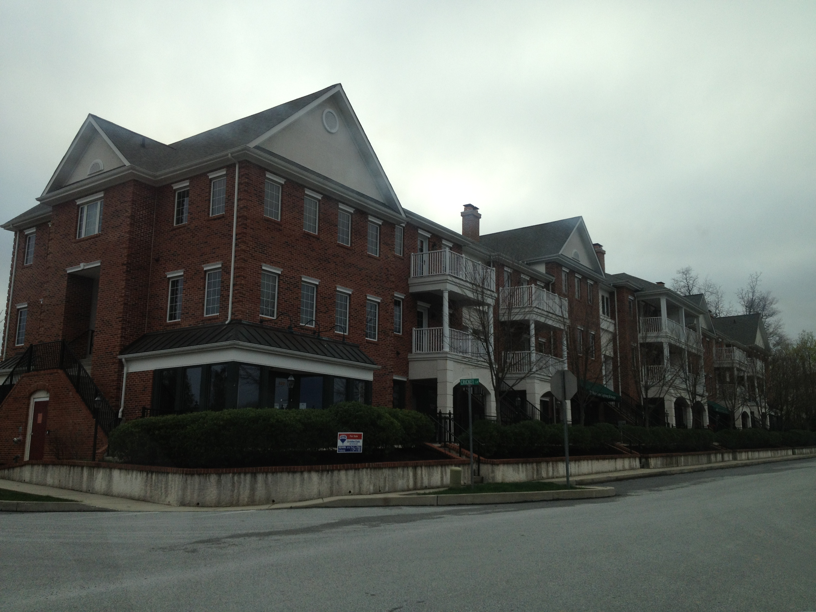 my camera